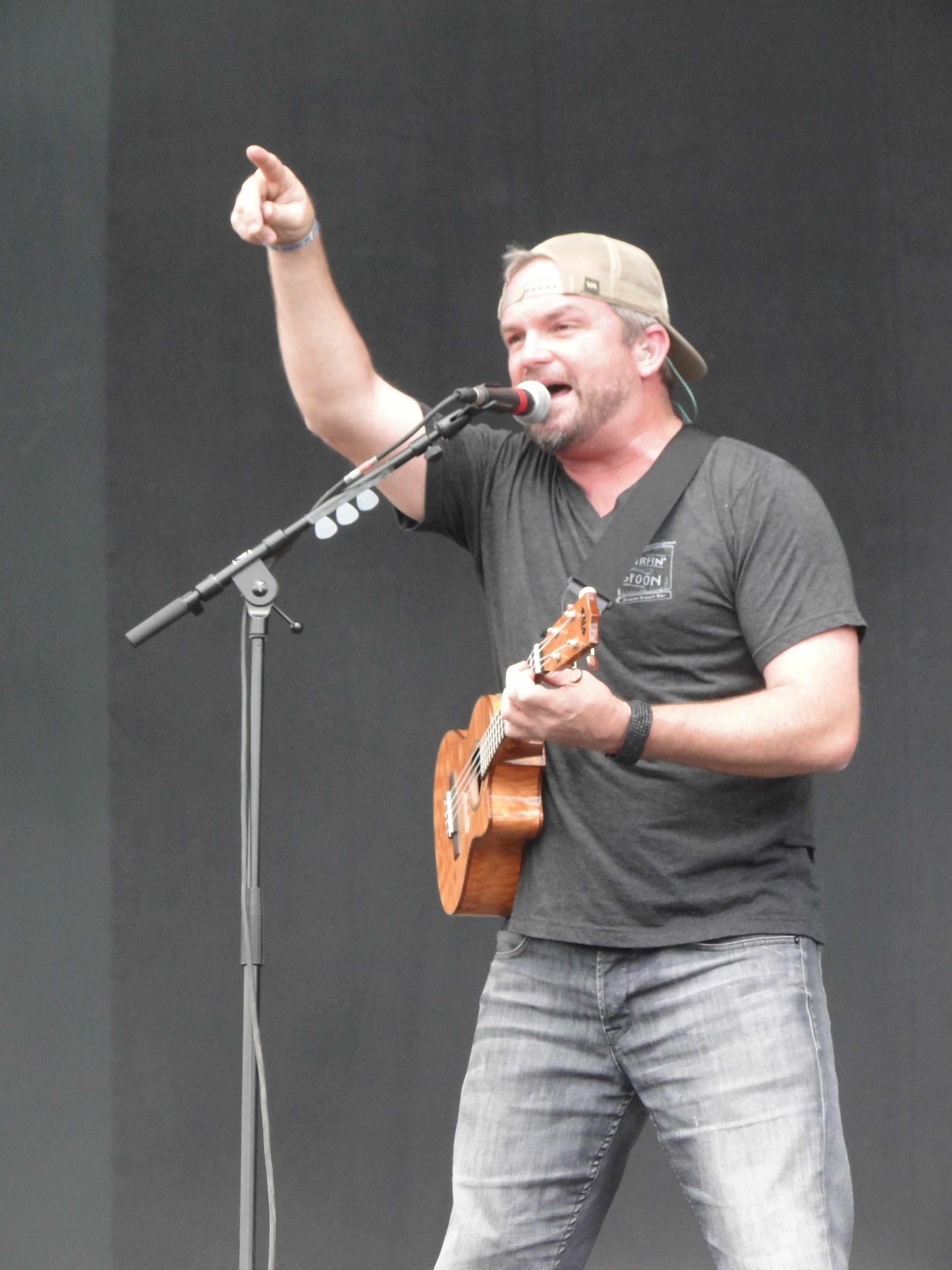 Brad Corrigan at Hurrican Festival, Germany 2014